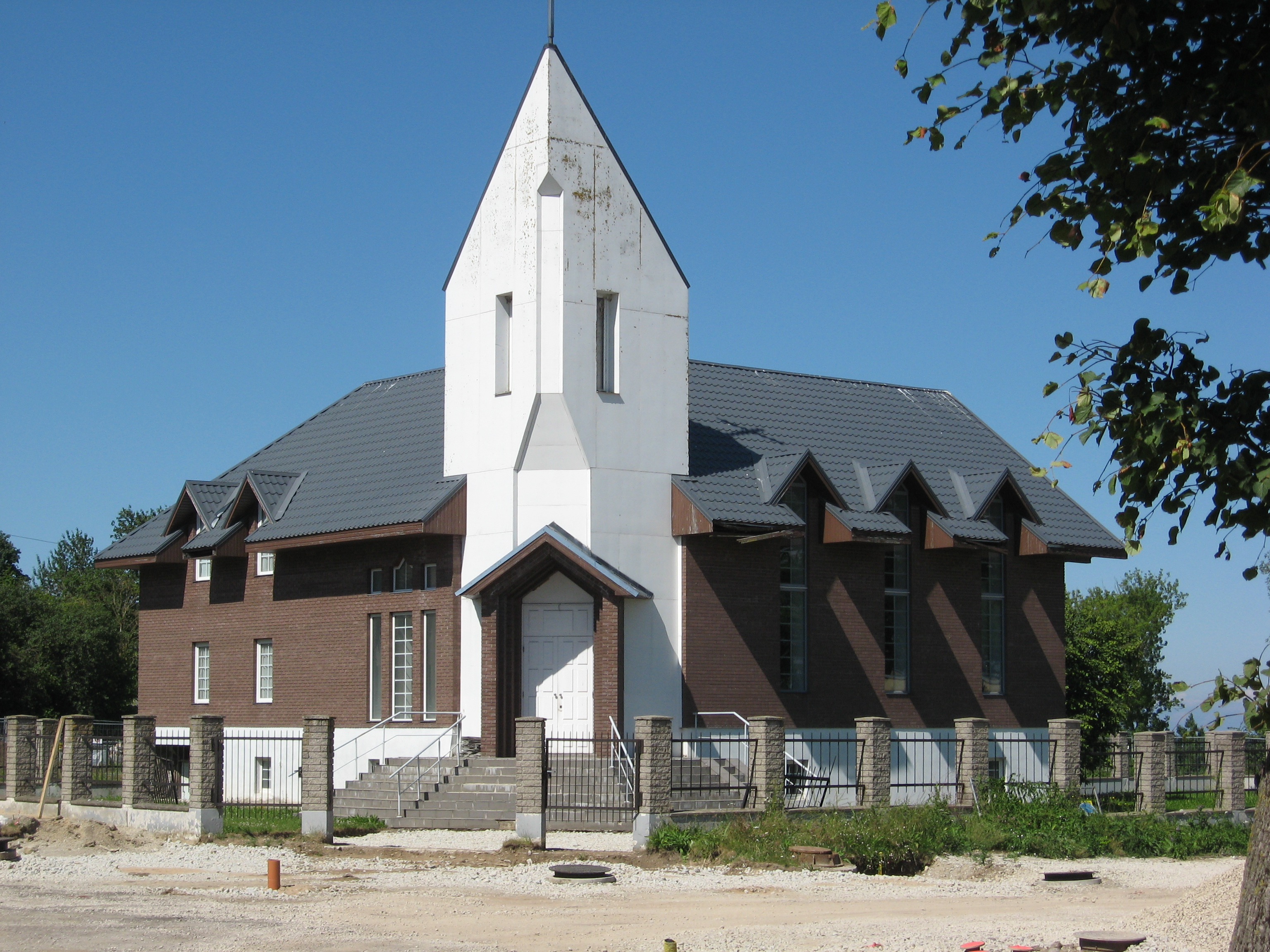 Sillamäe Catholic Church